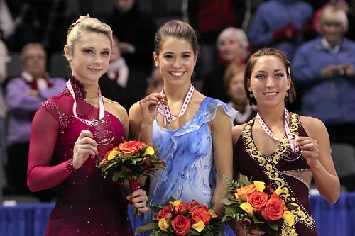 Ksenia Makarova (2), Alissa Czisny (1), Amélie Lacoste (3) at the 2010 Skate Canada International